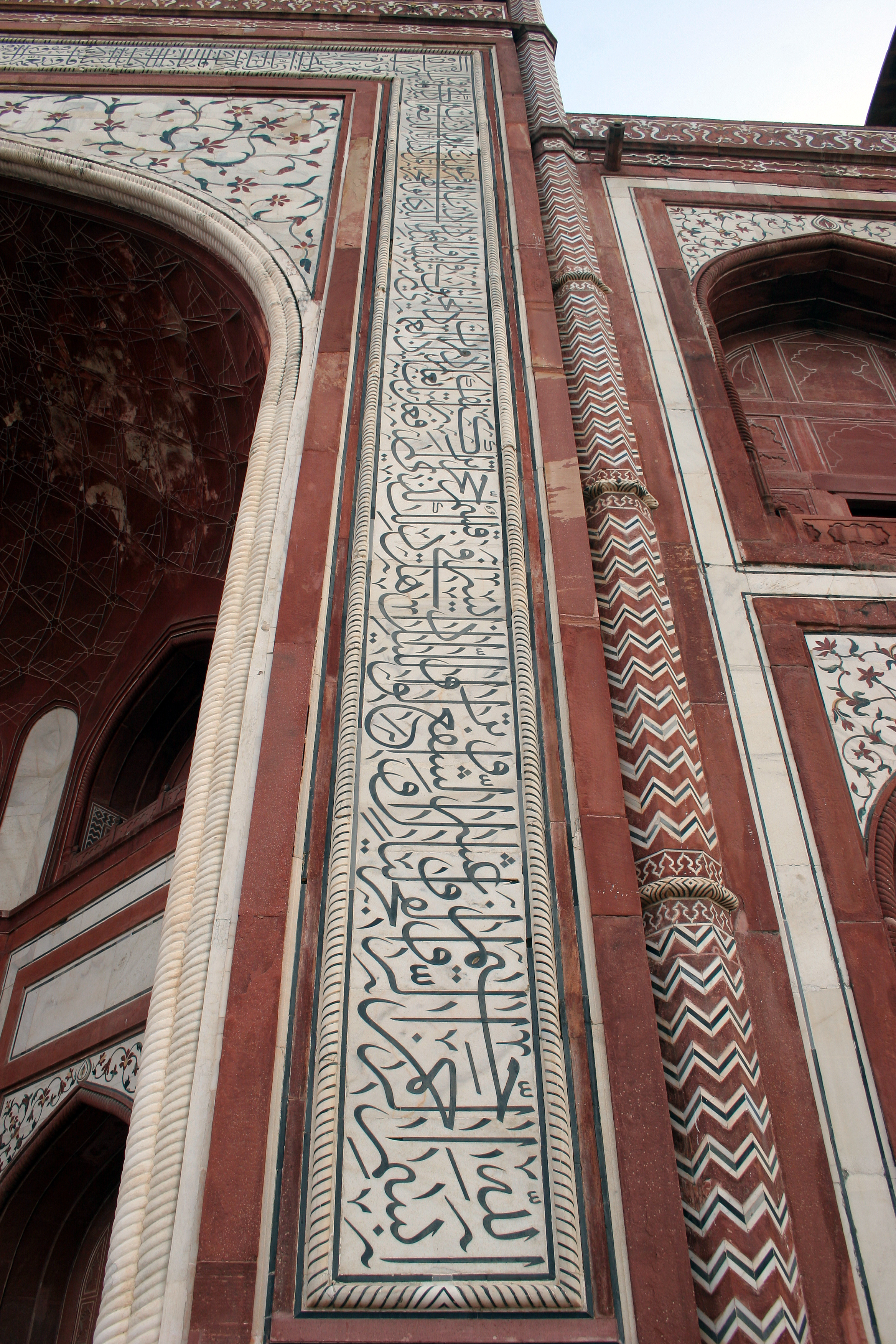 Gate to the Taj Mahal in Agra, India.